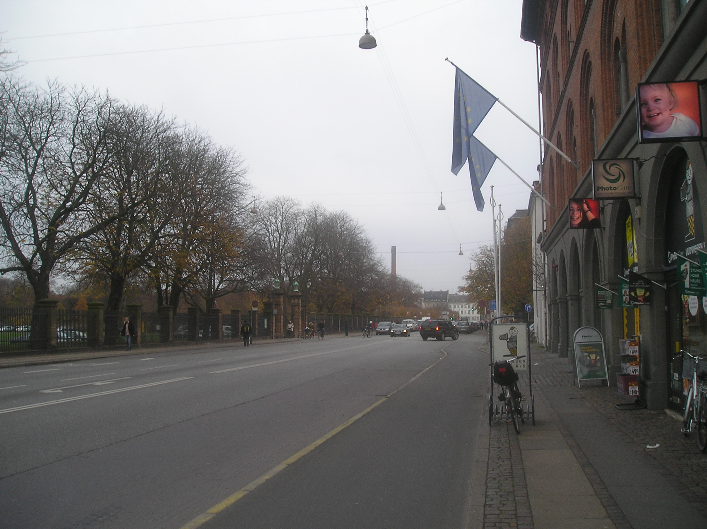 The street Gothersgade in Copenhagen looking from Nørre Voldgade direction Kongens Nytorv.